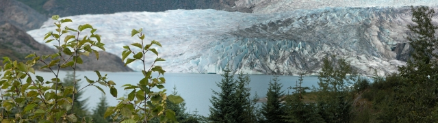 Mendenhall Glacier, near Juneau Alaska, from footpath in August 2003 by John R. Carpenter.